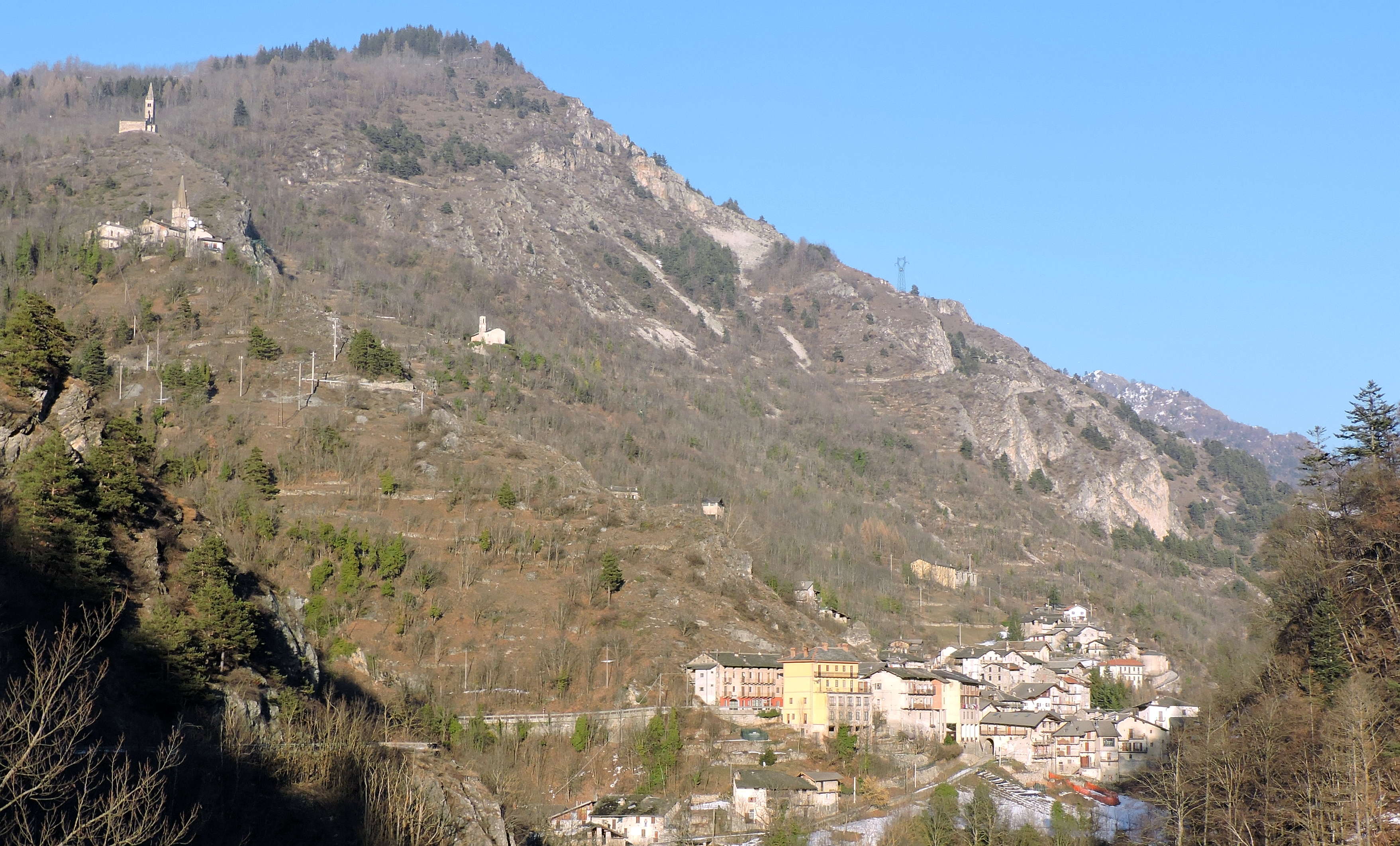 Stroppo (CN, Italy): frazione Bassura